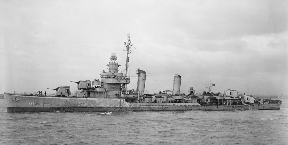 The U.S. Navy destroyer USS Knight (DD-633) off the New York Naval Shipyard (USA) on 20 October 1943.